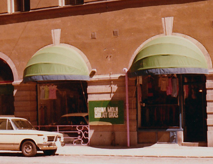 Gröna moln och blått gräs (boutique), Norrlandsgatan 30, Stockholm, Sweden. 1983.